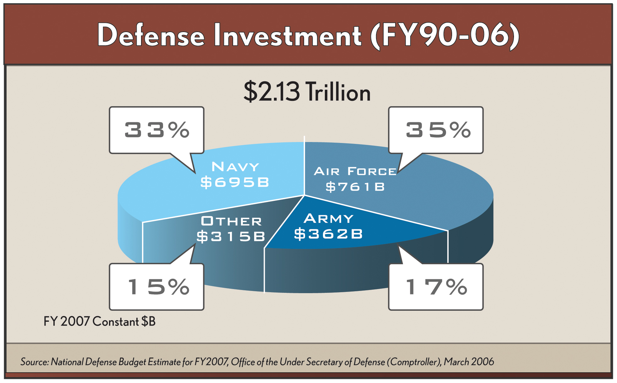 Pie chart of defense budget allocations to the single services in FY07 dollars.